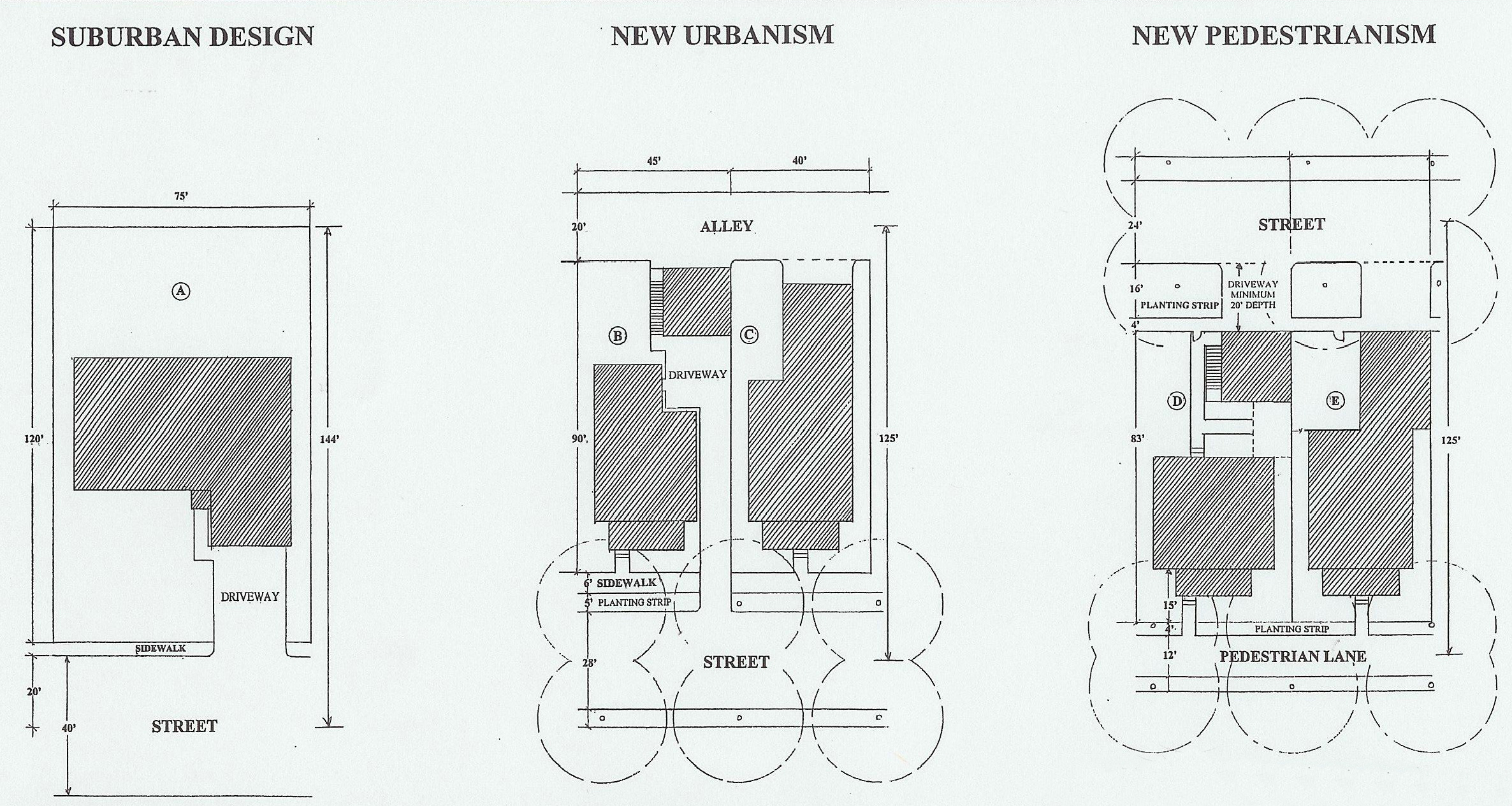 New Pedestrianism, showing comparison with typical suburban design and New Urbanism. Drawing by Michael E. Arth